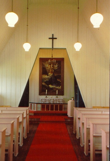 Interior of the chapel in the abandoned village of Hamningberg in Eastern Finnmark, North Norway